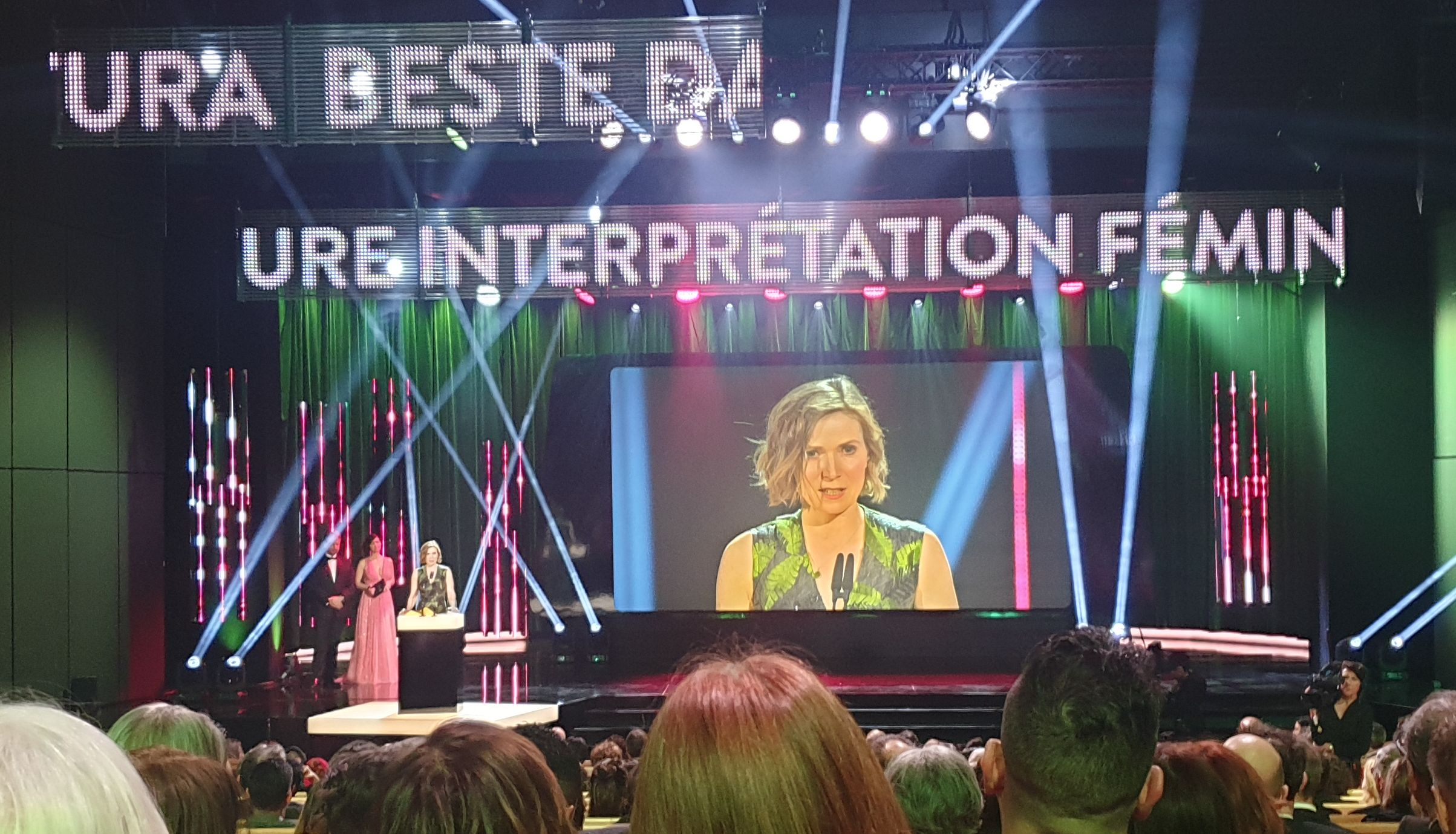 Judith Hofmann gets the Swiss FIlm Prize as best actress for her role as Ruth in Simon Jaqemet's film "Der Unschuldige".